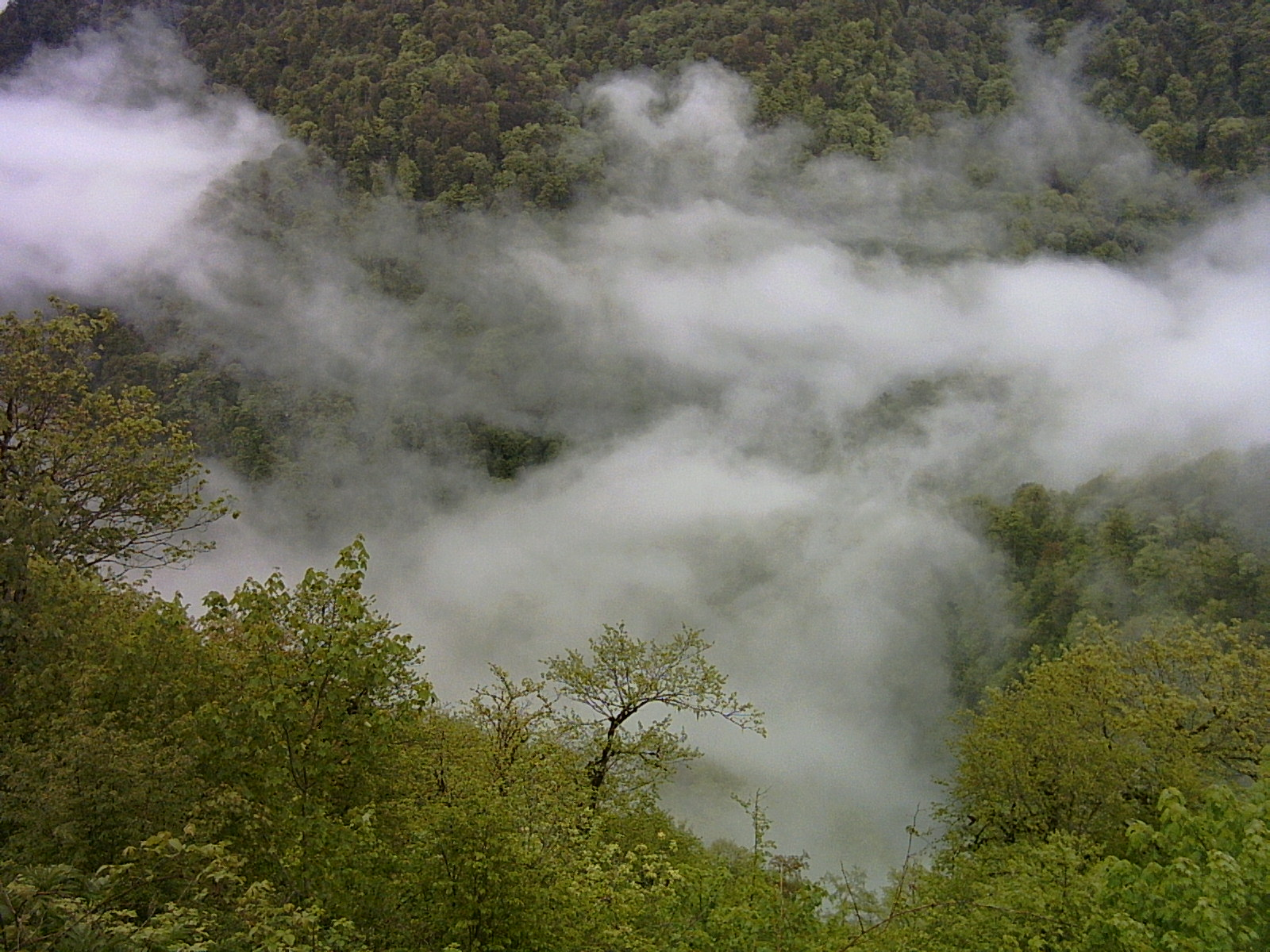 Sisangan National Forest